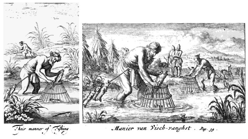 "Their manner of Fishing". Illustrations from the English edition (1681) and Dutch edition (1692) of Robert Knox, An Historical Relation of the Island Ceylon.